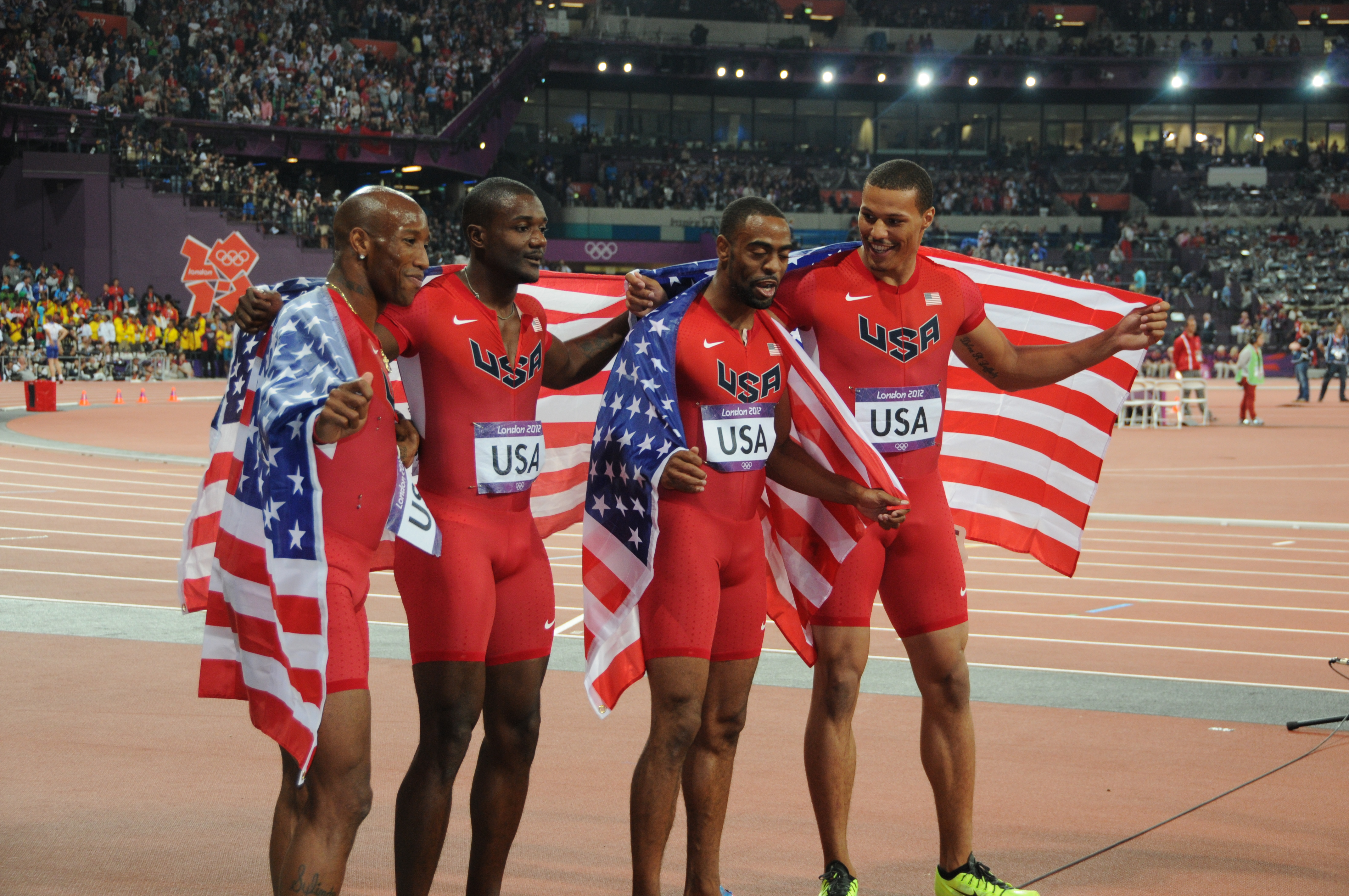 Team american relay of 4x100